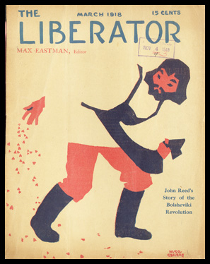 Cover of The Liberator's first issue, March 1918, art by Hugo Gellert. Original in Tim Davenport Collection, scan by Tim Davenport, no copyright claimed.